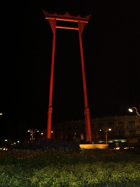 The newly contructed Giant Swing at Wat Suthat, Bangkok. Taken on 9-11-2007, the night before the grand opening ceremony presided by King Bhumibol and Queen Sirikit.